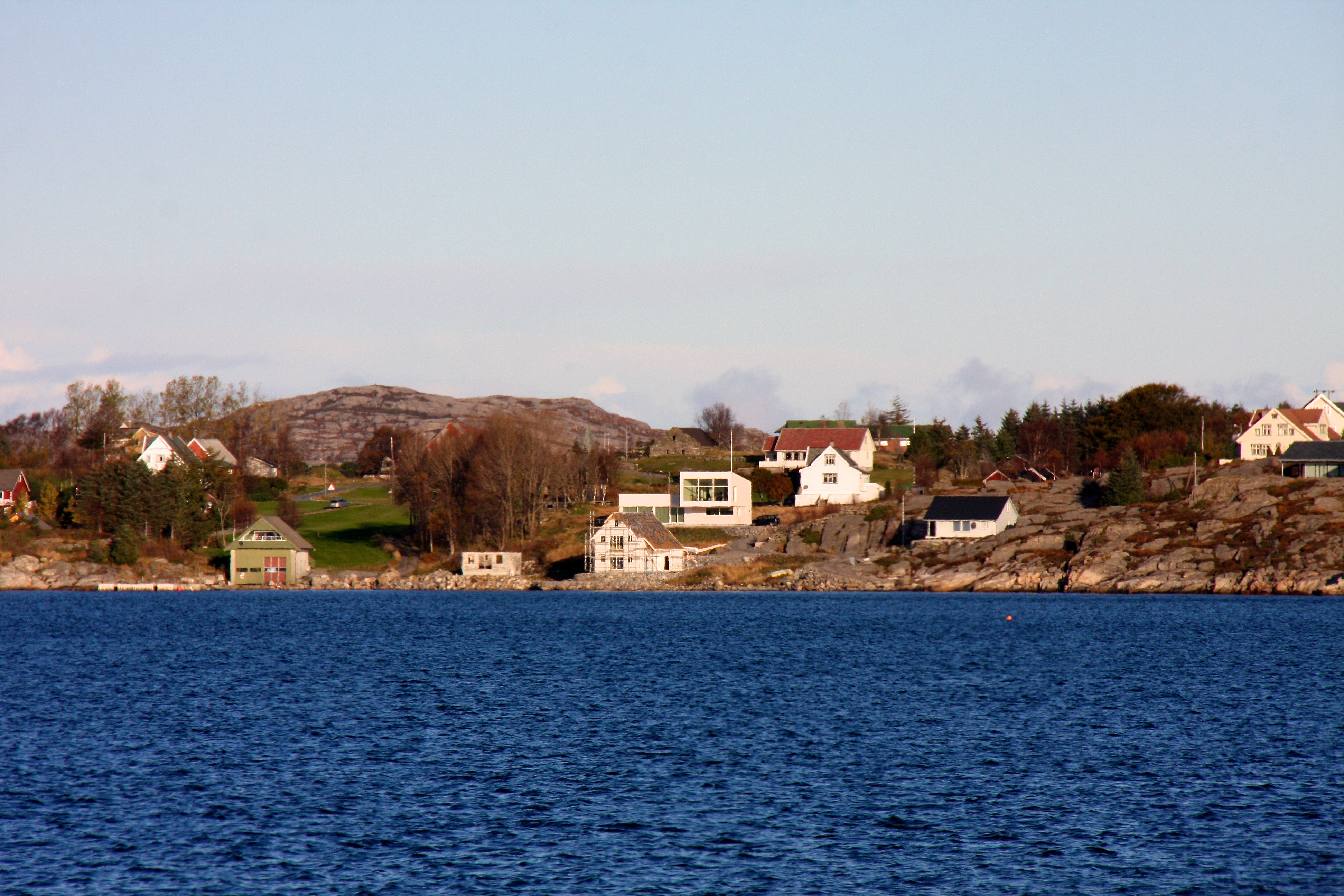 Gulen municipality, Norway.